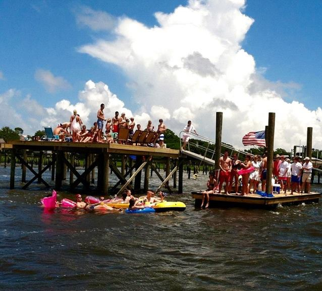 The 1st Annual Dockville Regatta took place before the completion of the actual dock.